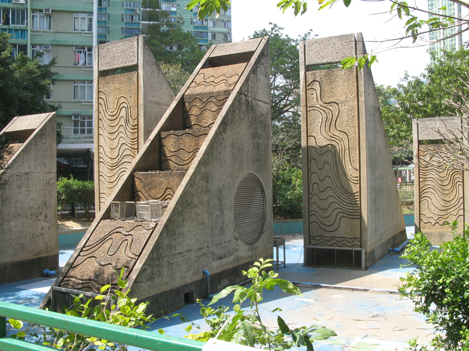 Mei Lam Estate Abandoned Fountain